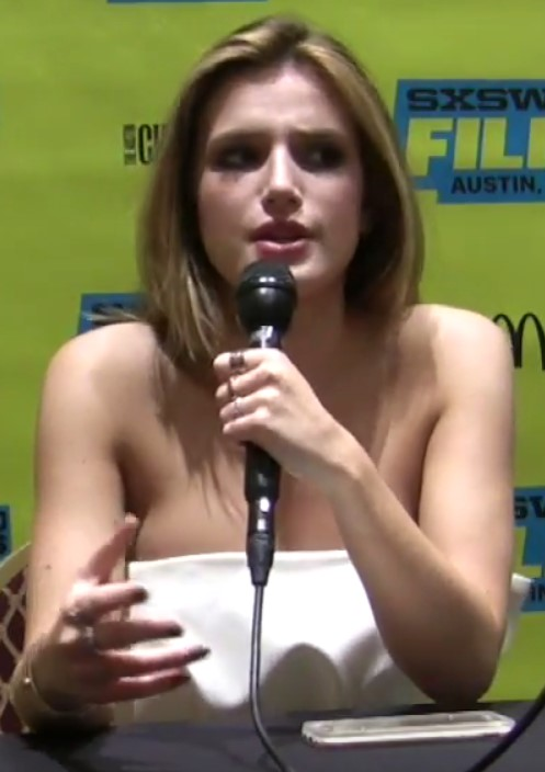 Spencer Fornaciari of The MacGuffin interviews actress/producer Bella Thorne from the drama Shovel Buddies at SXSW 2016.